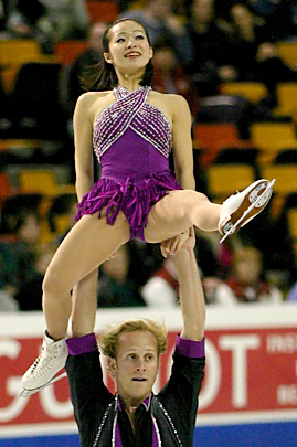 Rena Inoue (top), with partner John Baldwin Jr., performs a lift during their short program at the 2004 Four Continents Championships.